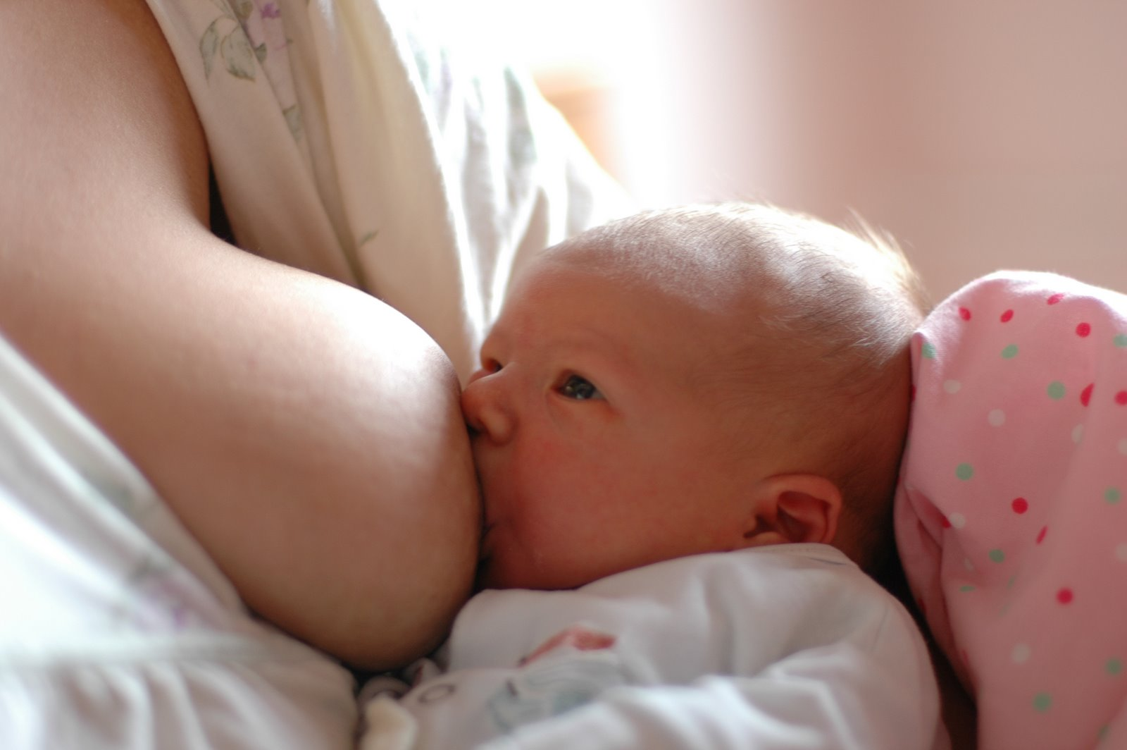 Breastfeeding the baby.